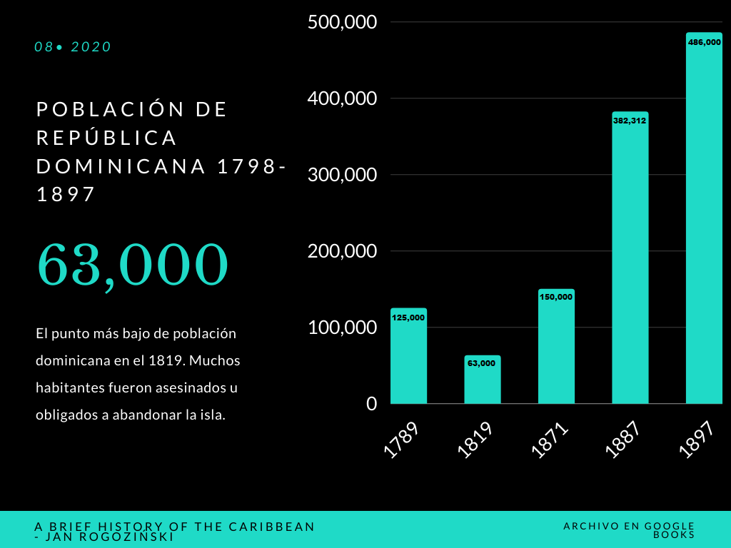 Contains Dominican Republic population 1798 - 1897